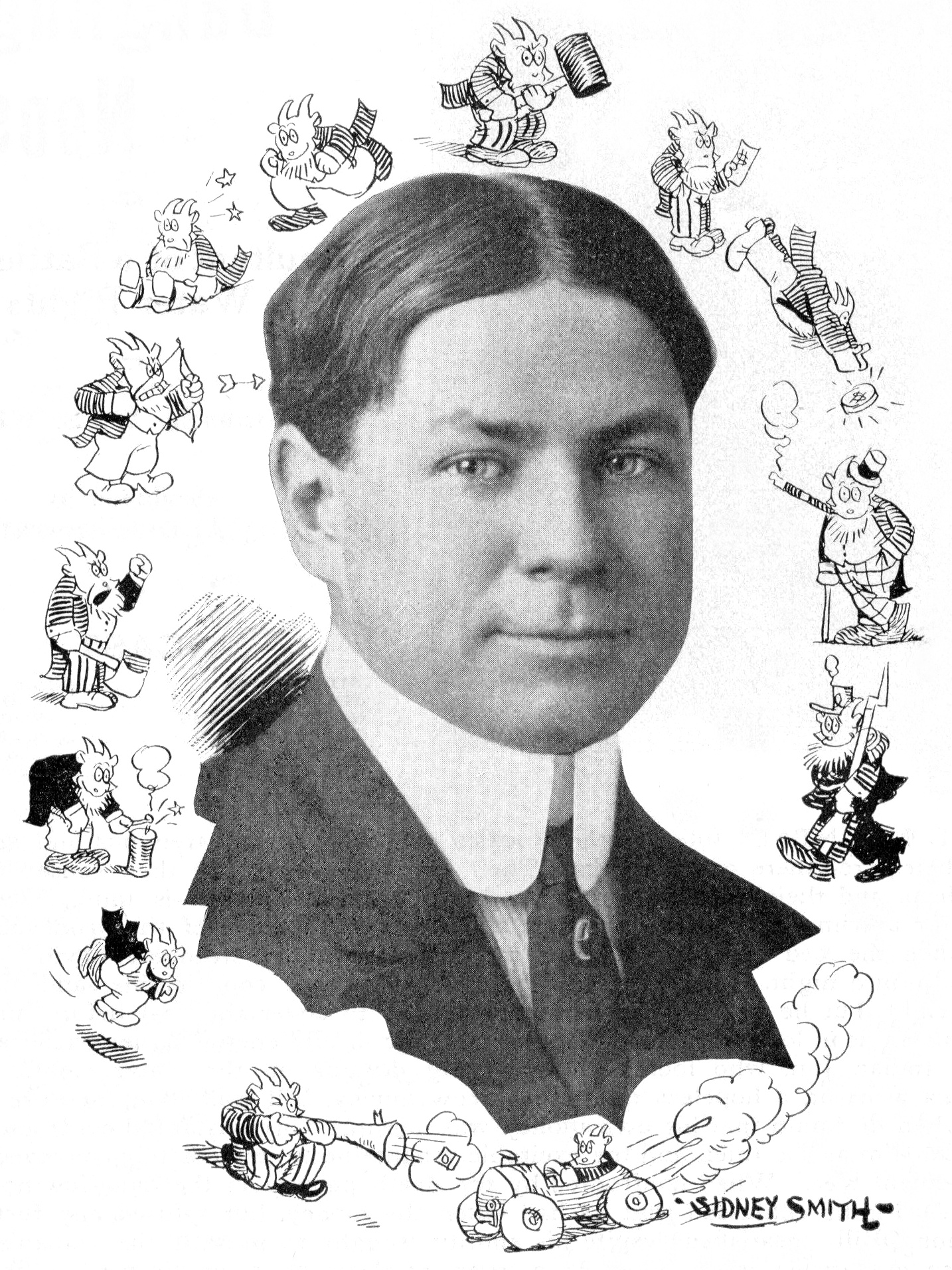 Portrait of Sidney Smith appearing on a release flier for the 1913 short film Old Doc Yak and the Artist's Dream.